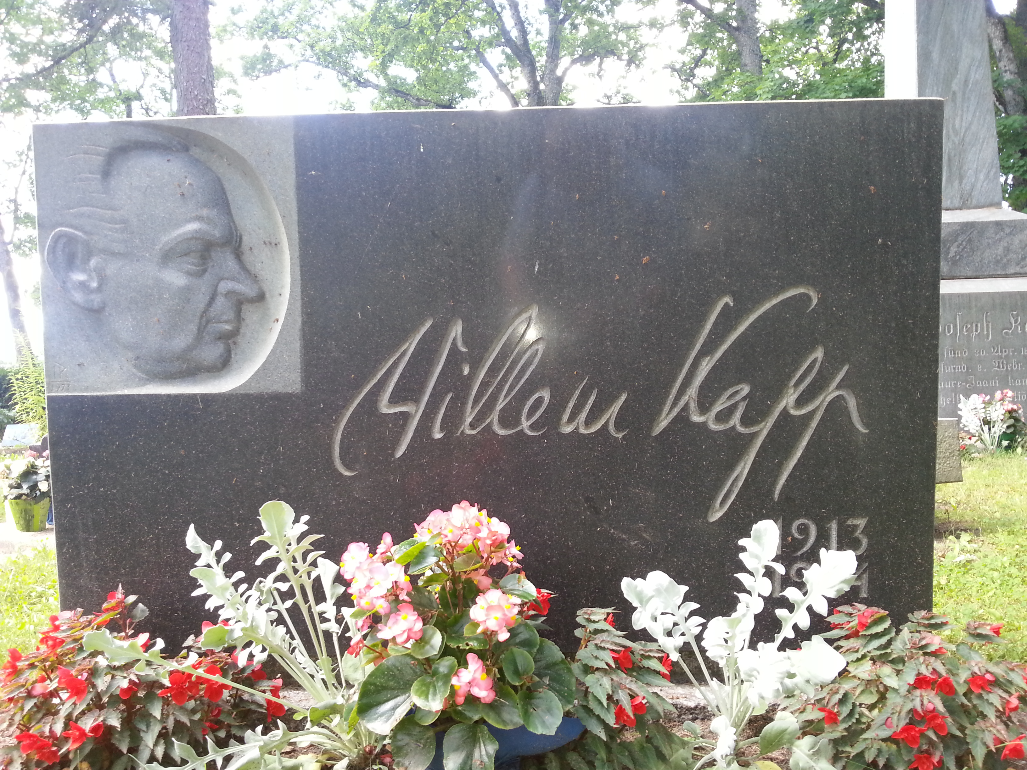 Villem Kapp Gravestone 1